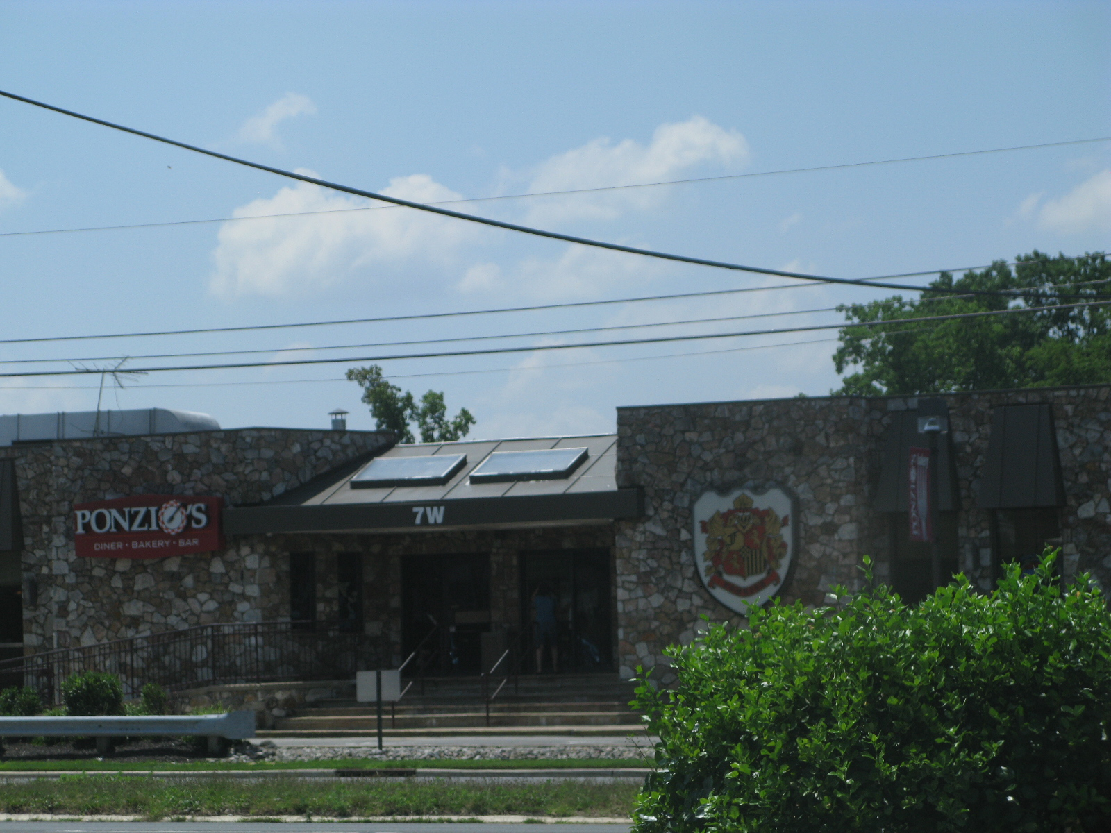 Ponzio's Diner located on Route 70 in Cherry Hill, New Jersey